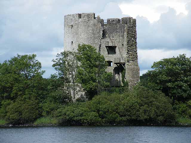 Clogh Oughter Castle Clogh Oughter Castle is situated on an island on Lough Oughter. The Anglo Normans built this round tower in the 12th or 13th century when they tried to conquer the East Breifne area. It was once the stronghold of the O'Reilly Clan, rulers of East Breifne and used as a prison for the rest of the middle ages. Lough Oughter played a pivotal role in the 1641 Rebellion. The castle was one of the last confederate strongholds to surrender in Ireland to the Cromwellian forces in 1653.